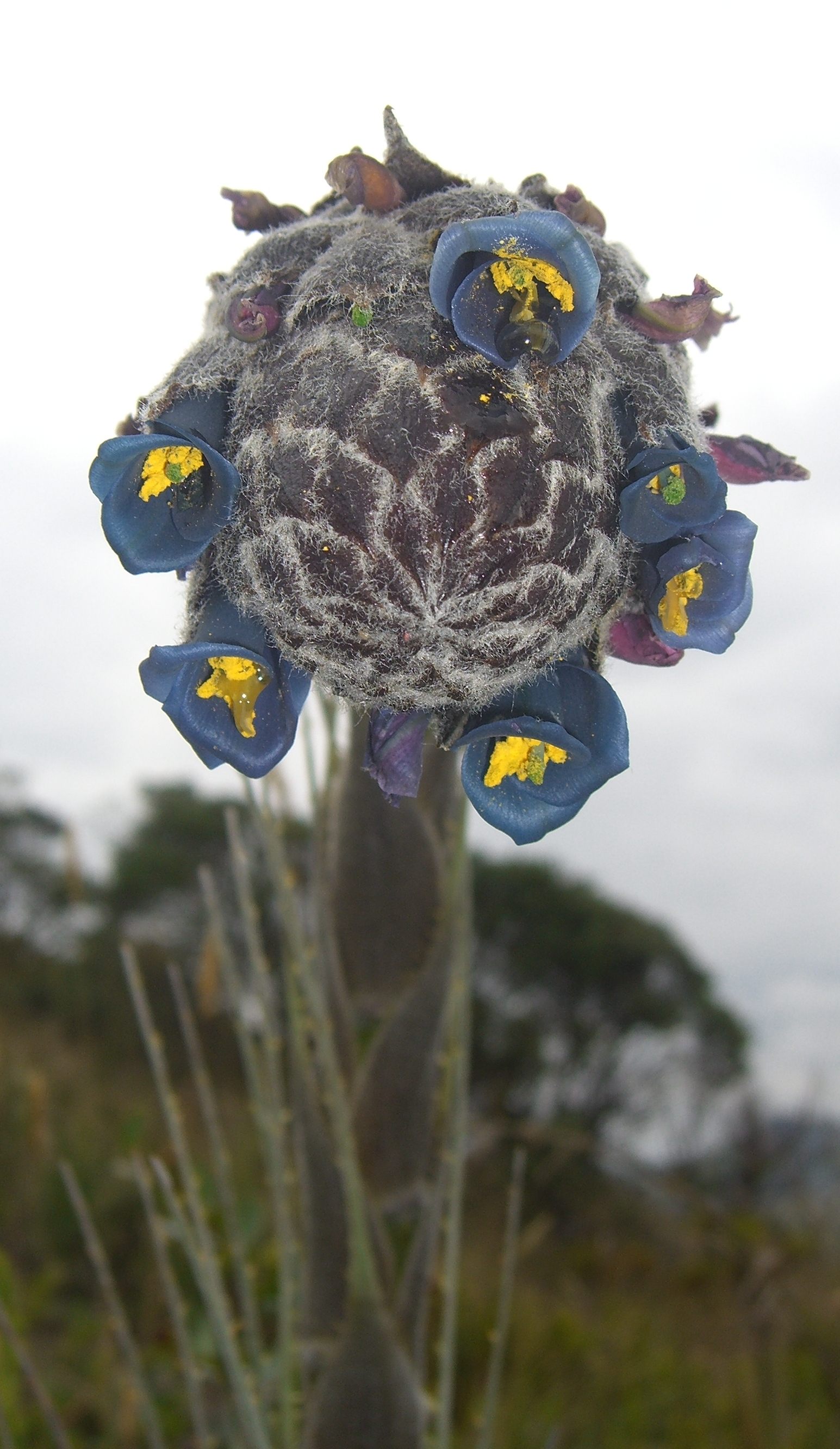 Please report references to .